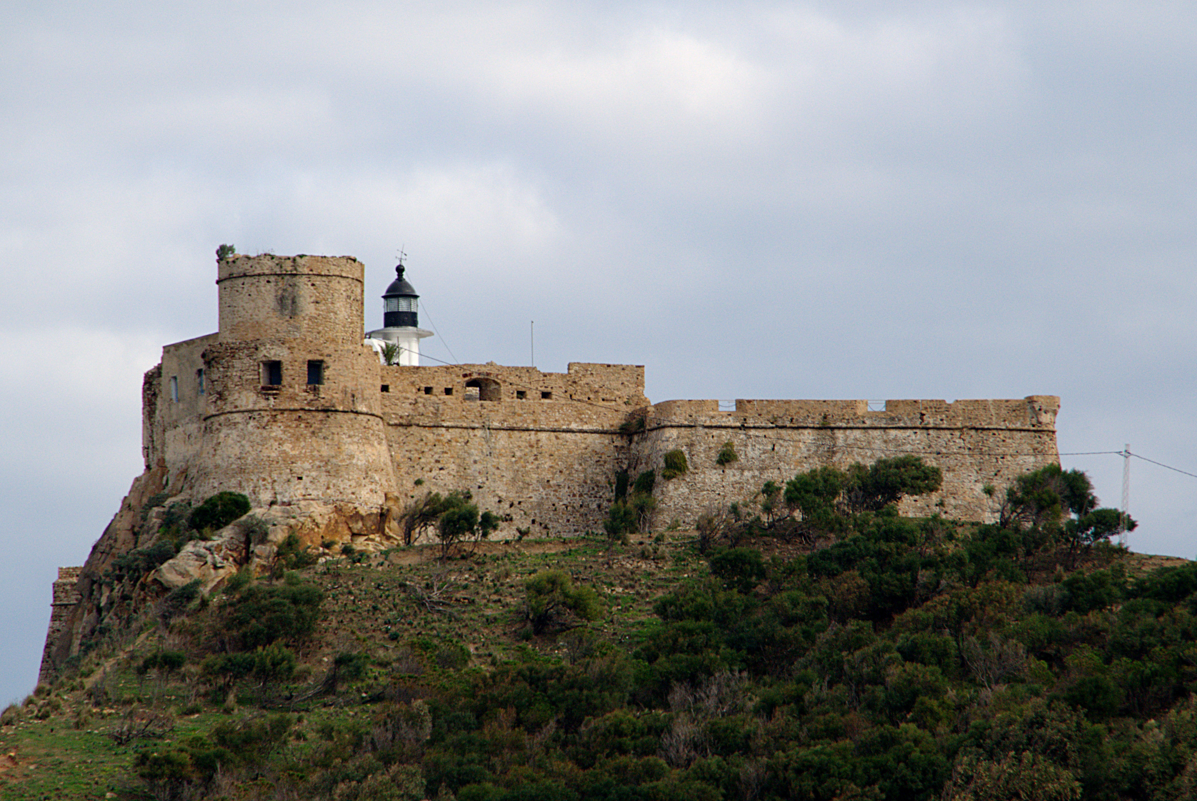 Photographs of Tabarka